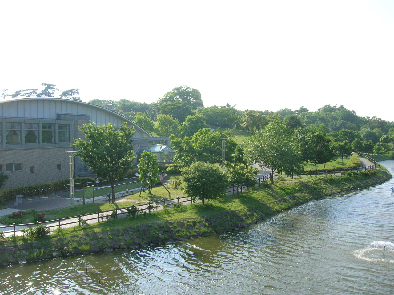 Shurakuen kōen (Shurakuen Park) Loc: Tokai city, Aichi prefecture, Japan.